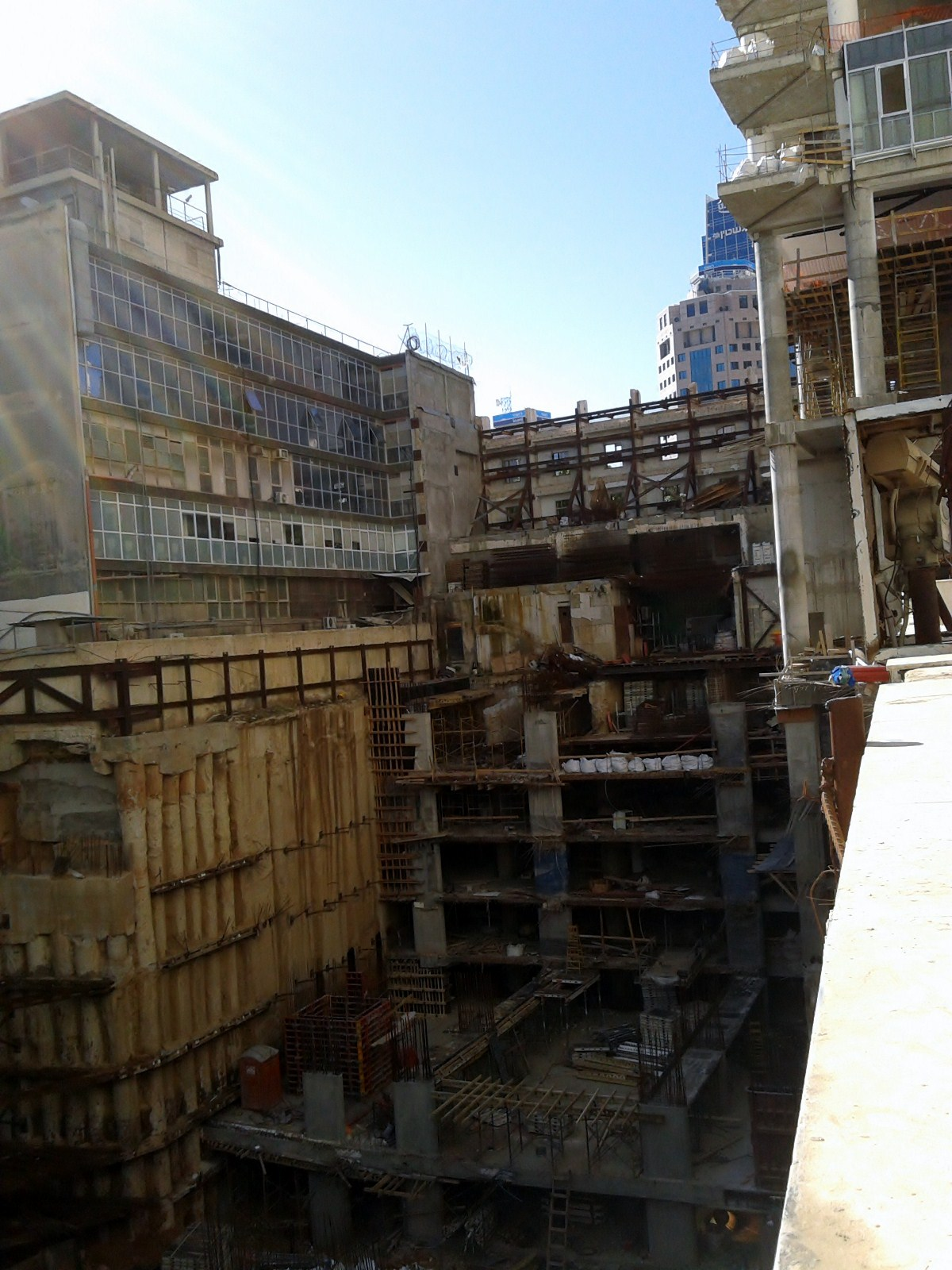 Meier on Rothschild back basement under construction